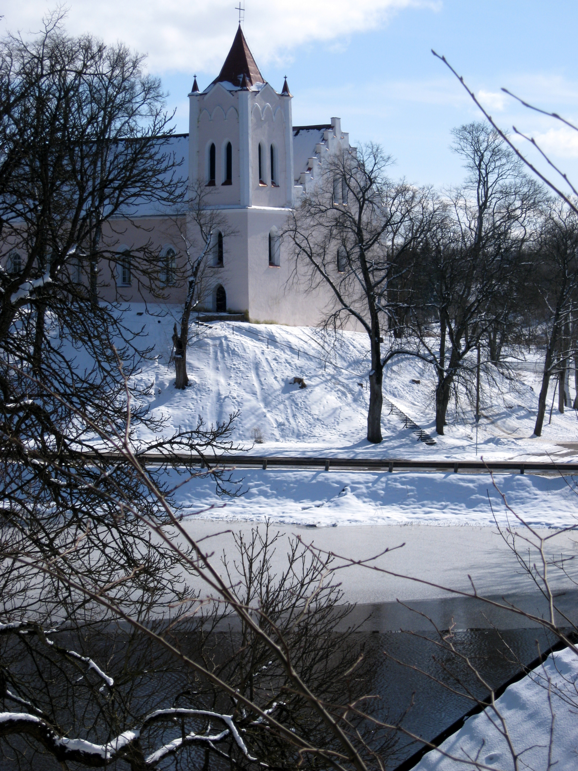 Aizpute Saint John Evangelical Lutheran ChurchLatviešu: Aizputes Svētā Jāņa evaņģēliski luteriskā baznīca